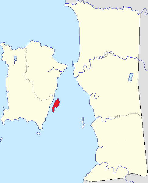 Map of Jerejak Island within Penang